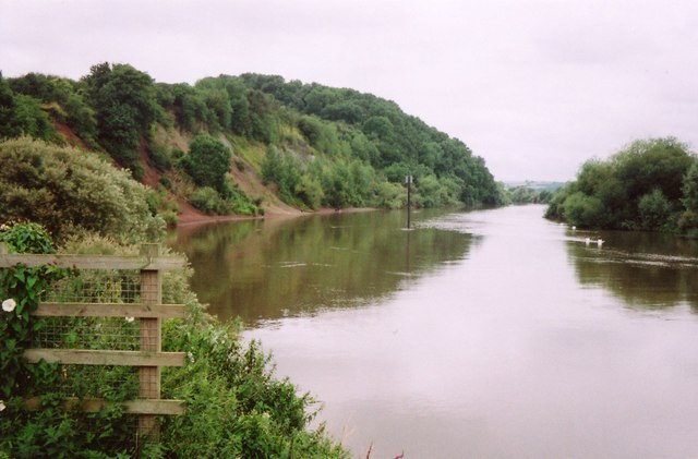 River Severn at Wainlode Cliff The river has eroded the soft sandstone at the base of Wainlode Hill to form this unstable cliff. The river is very shallow there, and the marker post virtually in the centre indicates that boats should keep to the right (in this direction).